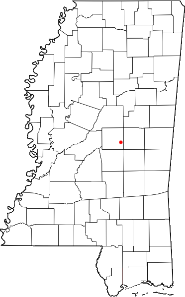 Madden, Mississippi location map; created with the GIMP. Made by User:Acntx. Adapted from Wikipedia's Mississippi County Maps.